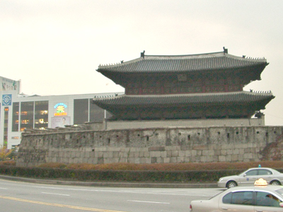 Heunginjimun